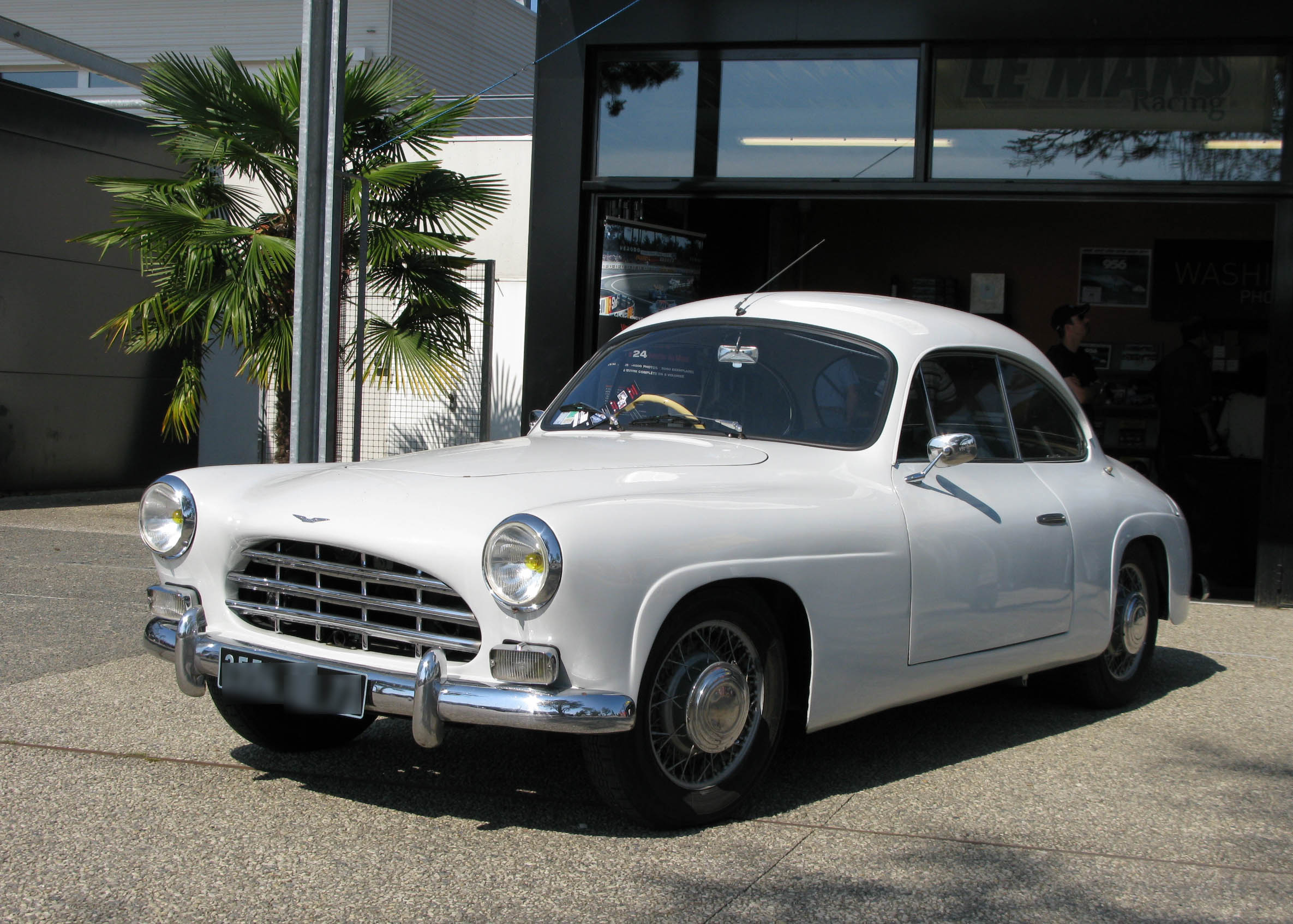 1953 Salmson 2300.Event: 2011 LM Story, Circuit Bugatti, Le Mans